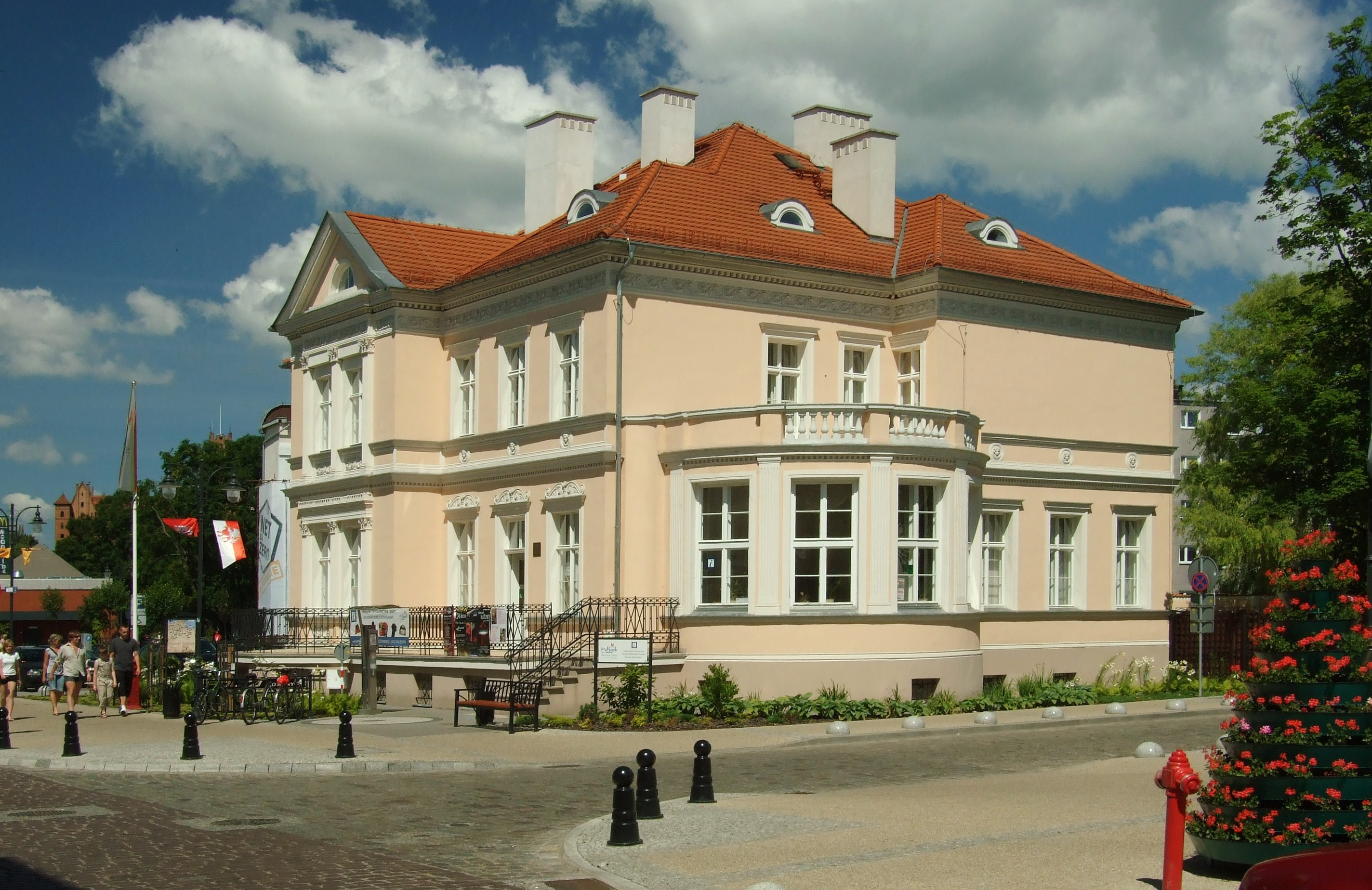 Informations center building at one of the main streets in Malbork, Poland